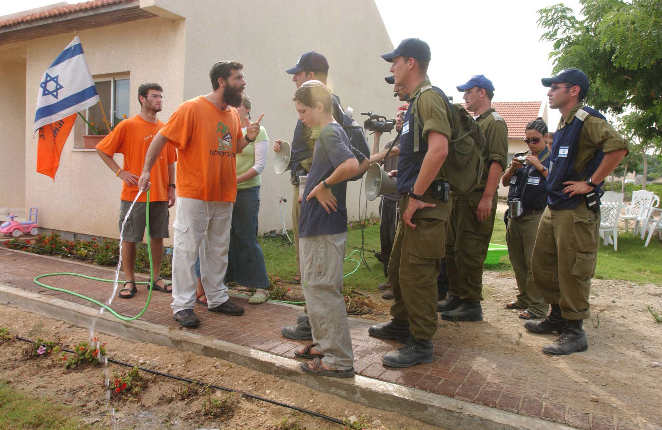 August 17, 2005. Residents confront soldiers during the forced evacuation of the Israeli community Neve Dekalim. The evacuation of Neve Dekalim was part of the Gaza Disengagement, which occured during the summer of 2005.